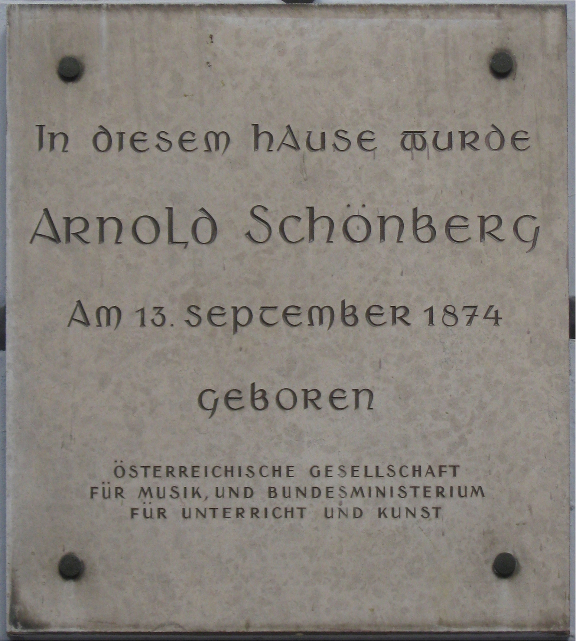 Arnold Schoenberg, memorial plaque at his birthplace in Vienna